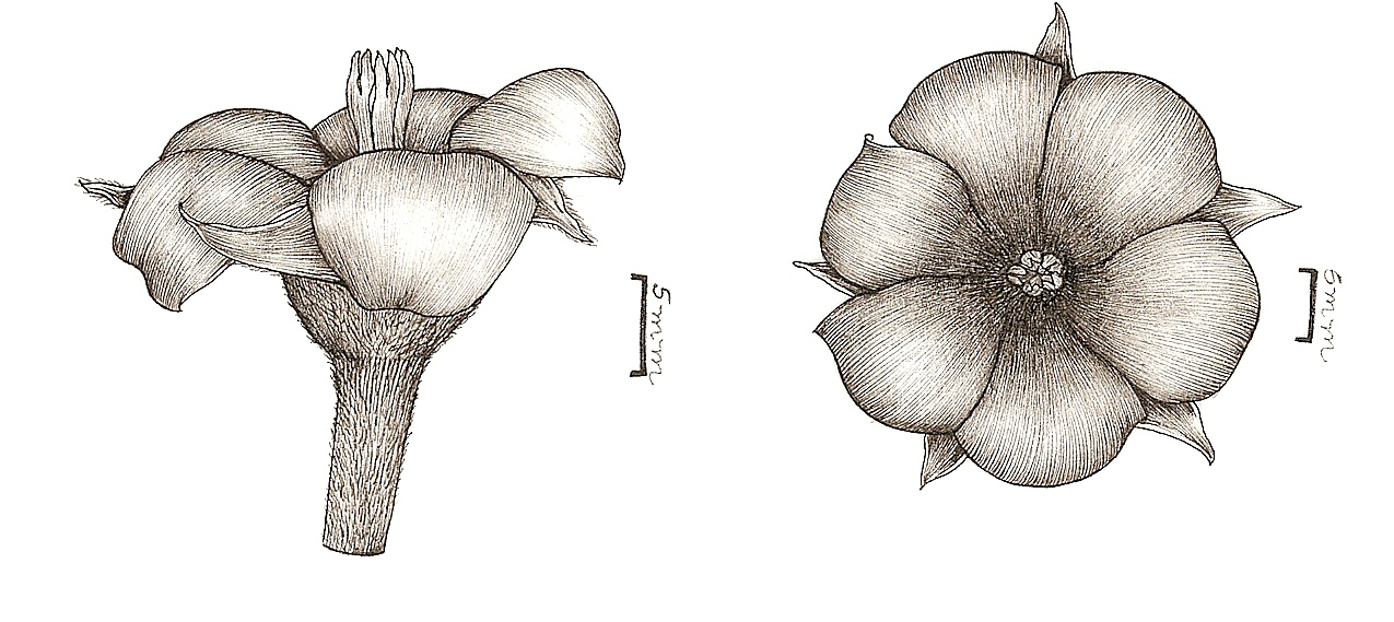 Drawing by Carla Teixeira de Lima. Work for hire.